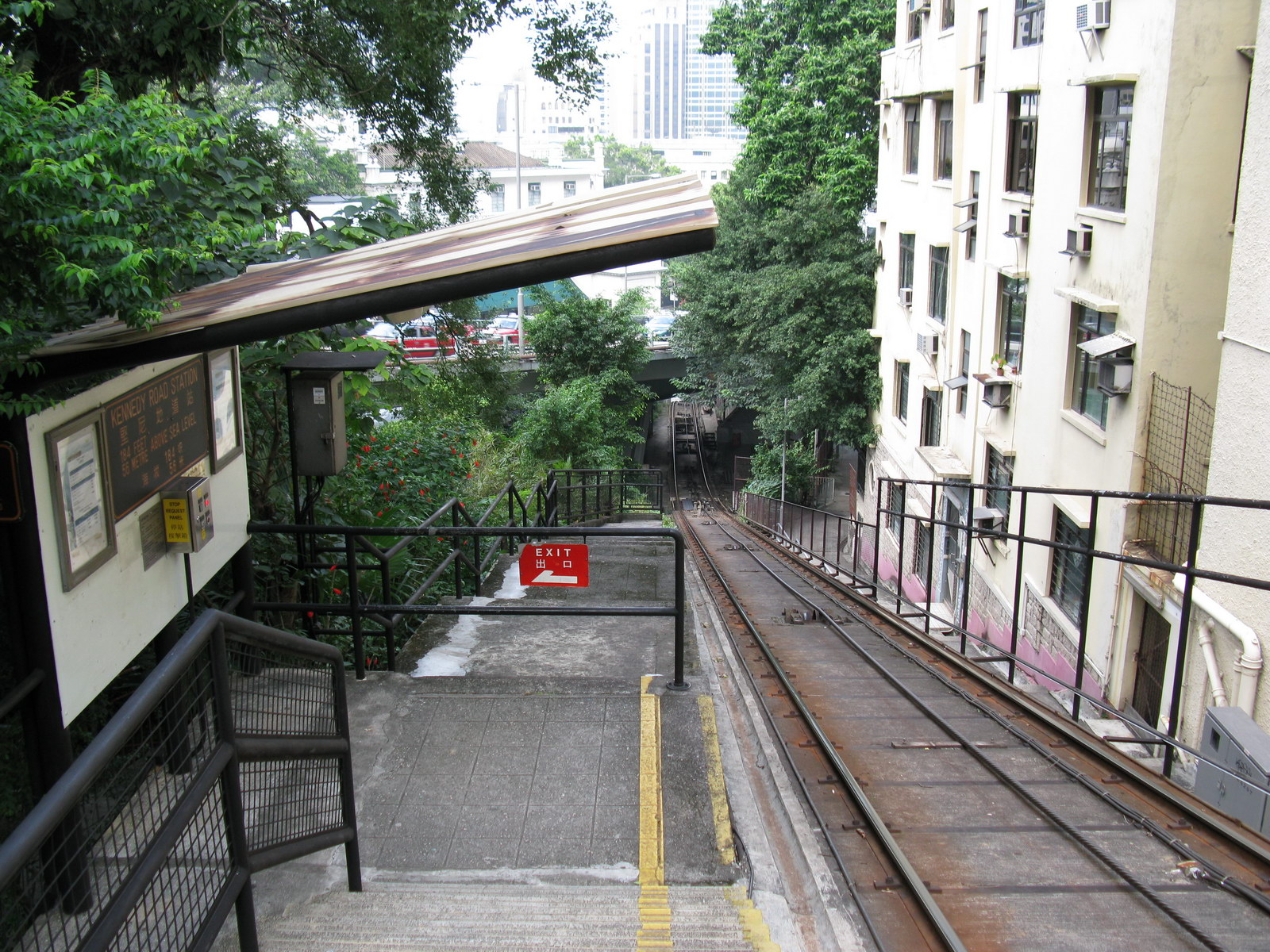 堅尼地道站 Kennedy Road Station